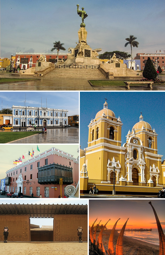 Trujillo Peru